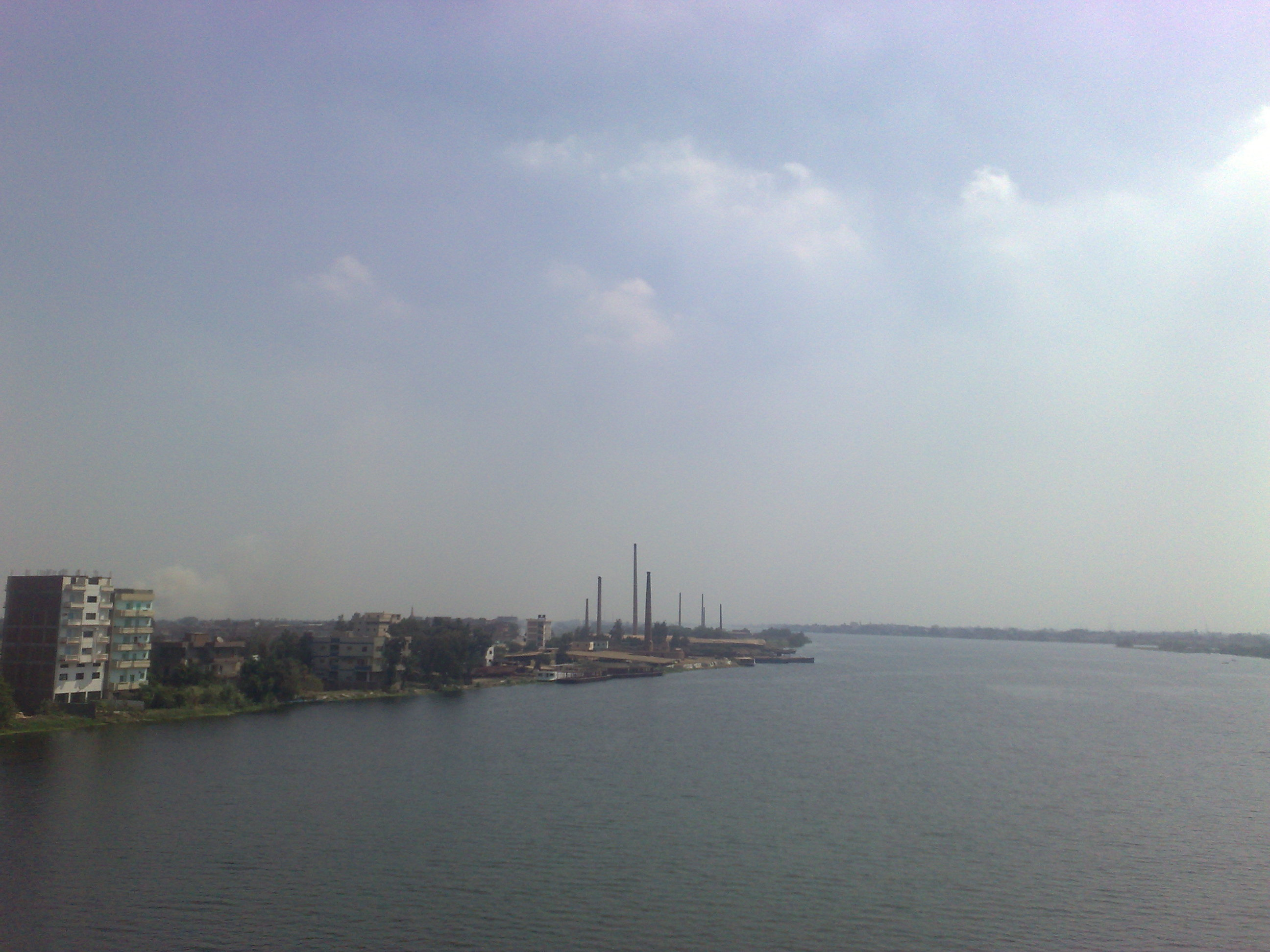 Factories of Red Brick - Desouk, Egypt